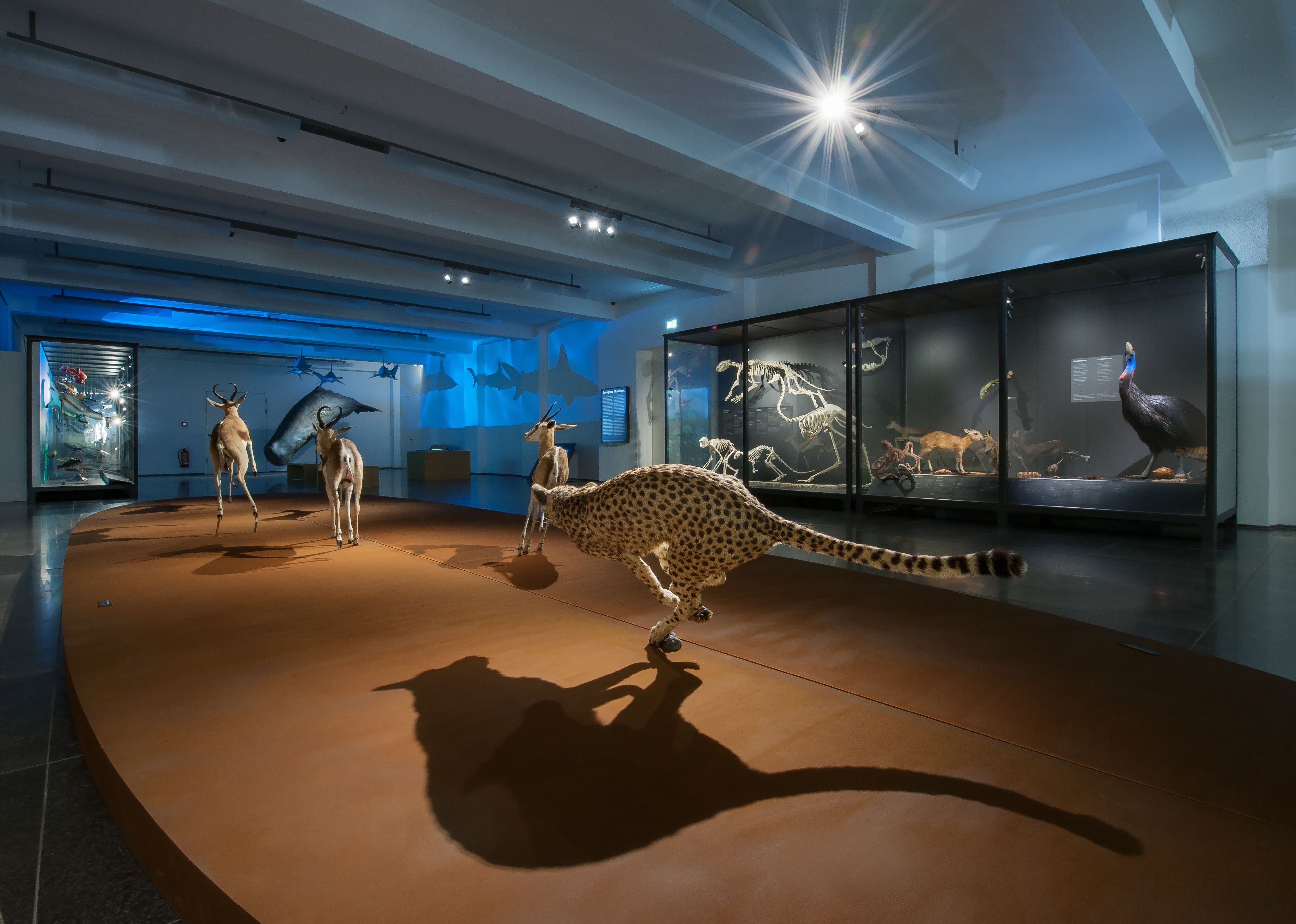 Movement– Location: Exhibition of the Natural History Collections of the Museum Wiesbaden